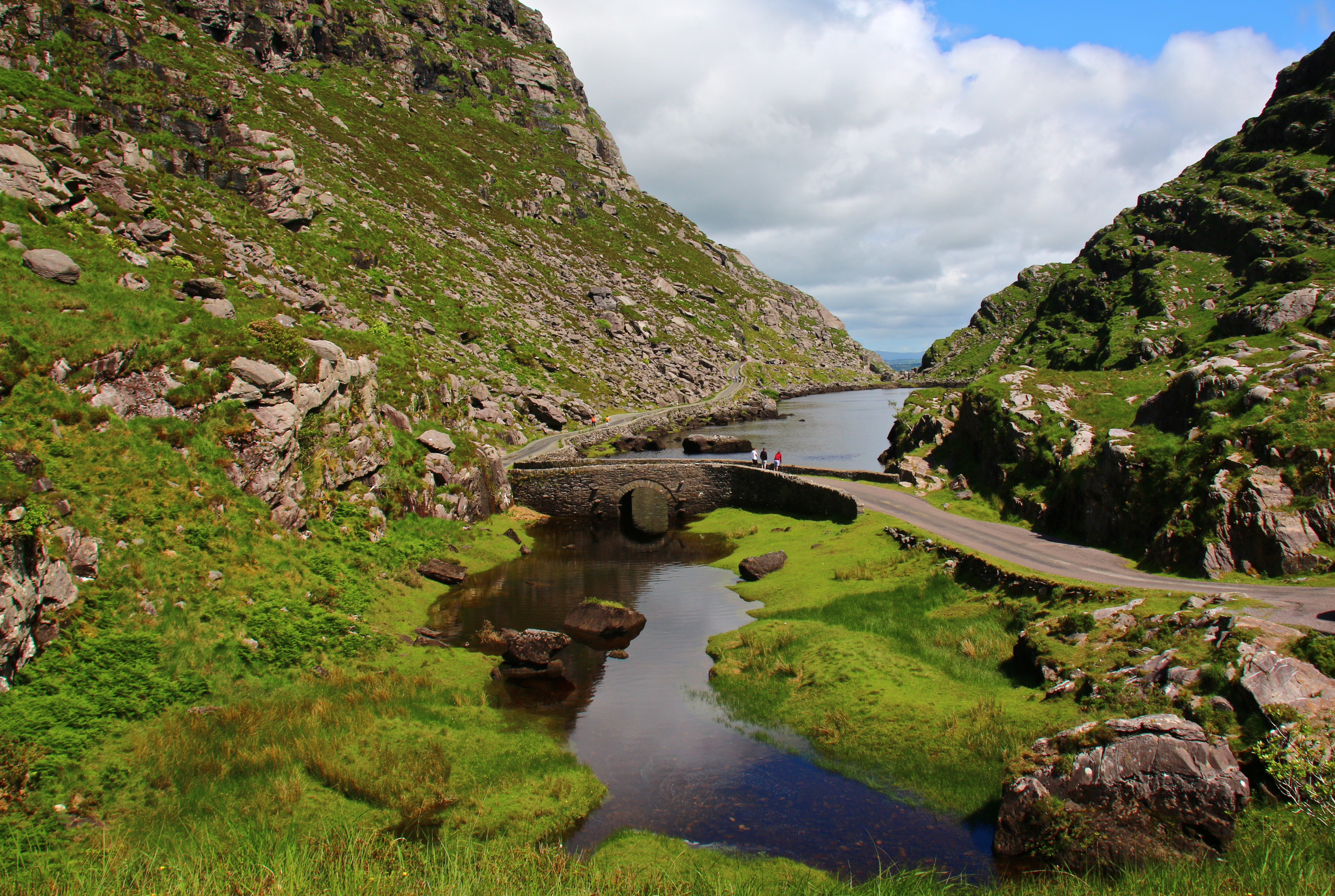 Photograph of the stone bridge at Black Lough (looking northwards) in the Gap of Dunloe, Kerry, Ireland